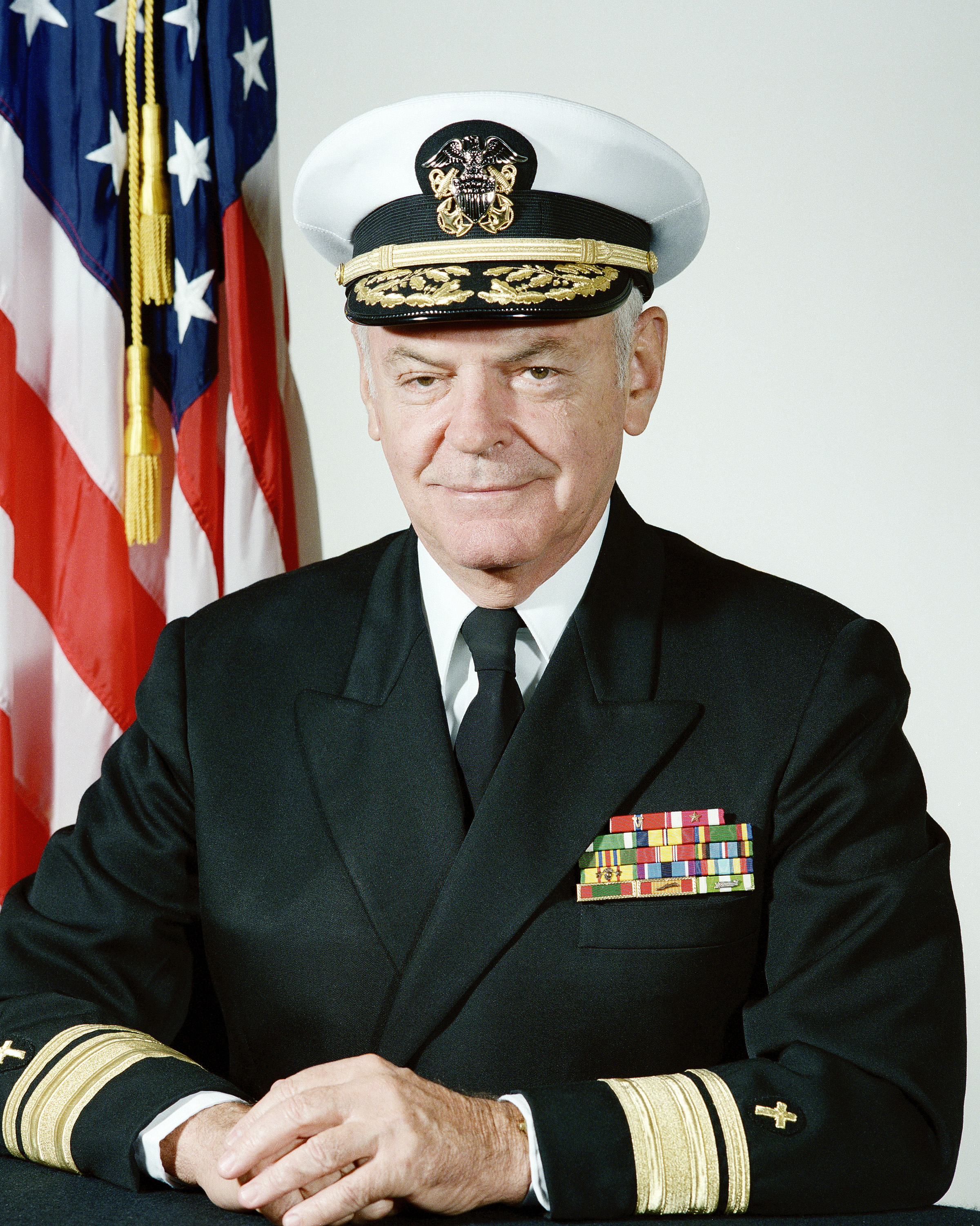 Rear Adm. (upper half) John R. McNamara, Chief of Chaplains of the U.S. Navy